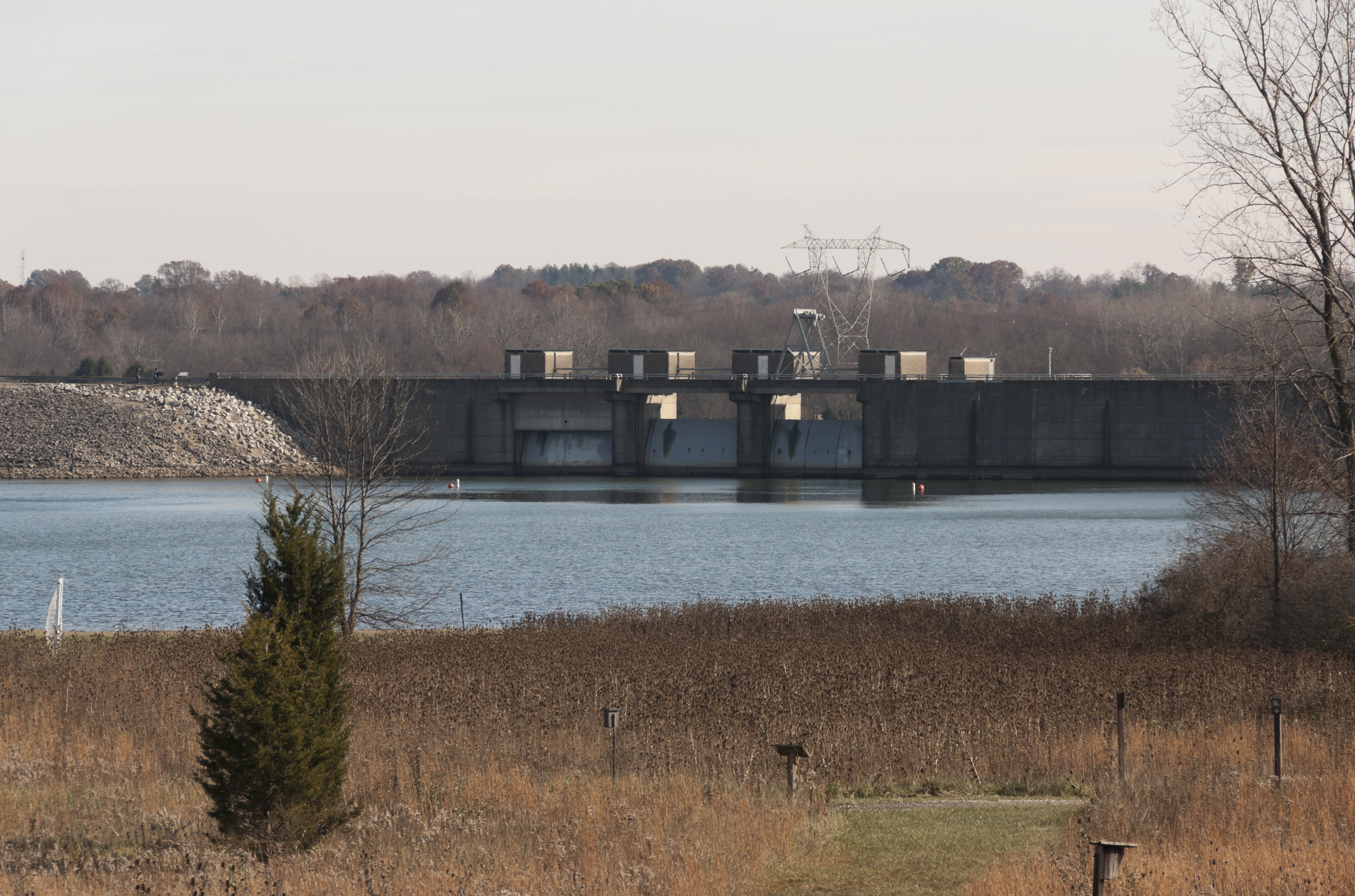 The Alum Creek Dam and Tainter gates in Alum Creek State Park, Delaware, Ohio. The Alum Creek Dam is 93 feet high. Alum Creek Lake can be seen in the foreground.